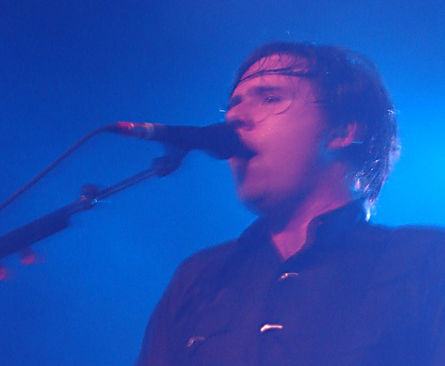 Jim Adkins, singer and guitar player of Jimmy Eat World, performing at Schlachthof in Wiesbaden, Germany.